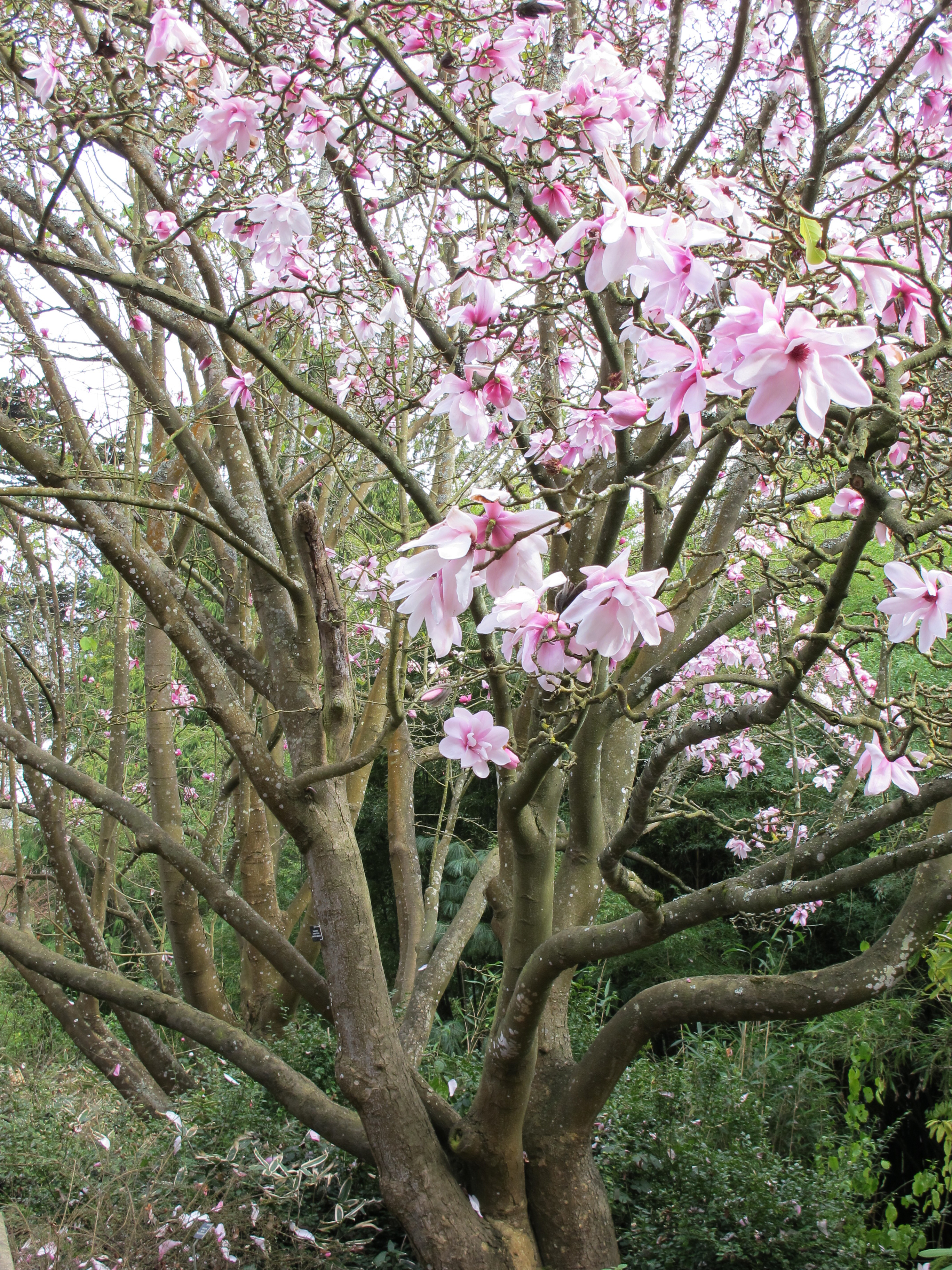 San Francisco Botanic Garden at Strybing Arboretum, California.